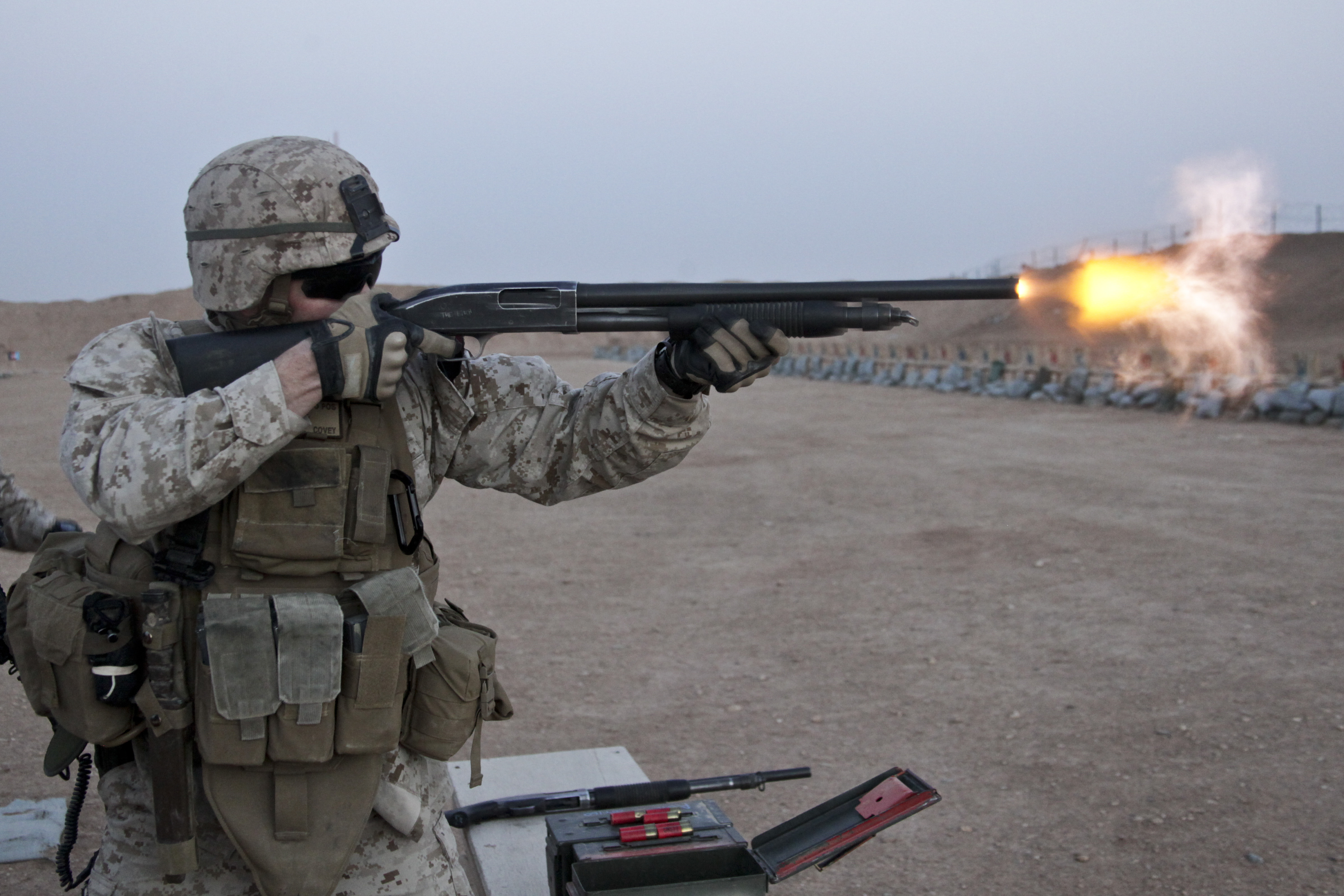 U.S. Marine Corps Capt. James Covey, commanding officer, Headquarters and Service Company, 3rd Battalion, 7th Marine Regiment (3/7), fires an M500 12 gage shotgun on Camp Leatherneck, Helmand province, Afghanistan, Feb. 19, 2014. 3/7 held a shooting competition to maintain their ability to respond to security threats. (Official Marine Corps photo by Cpl. James Mast / Released) Date Taken:02.19.2014 Date Posted:02.23.2014 08:51 Photo ID:1172594 VIRIN:140219-M-TP573-402 Resolution:4800x3200 Size:2.49 MB Location:HELMAND PROVINCE, AF Read more